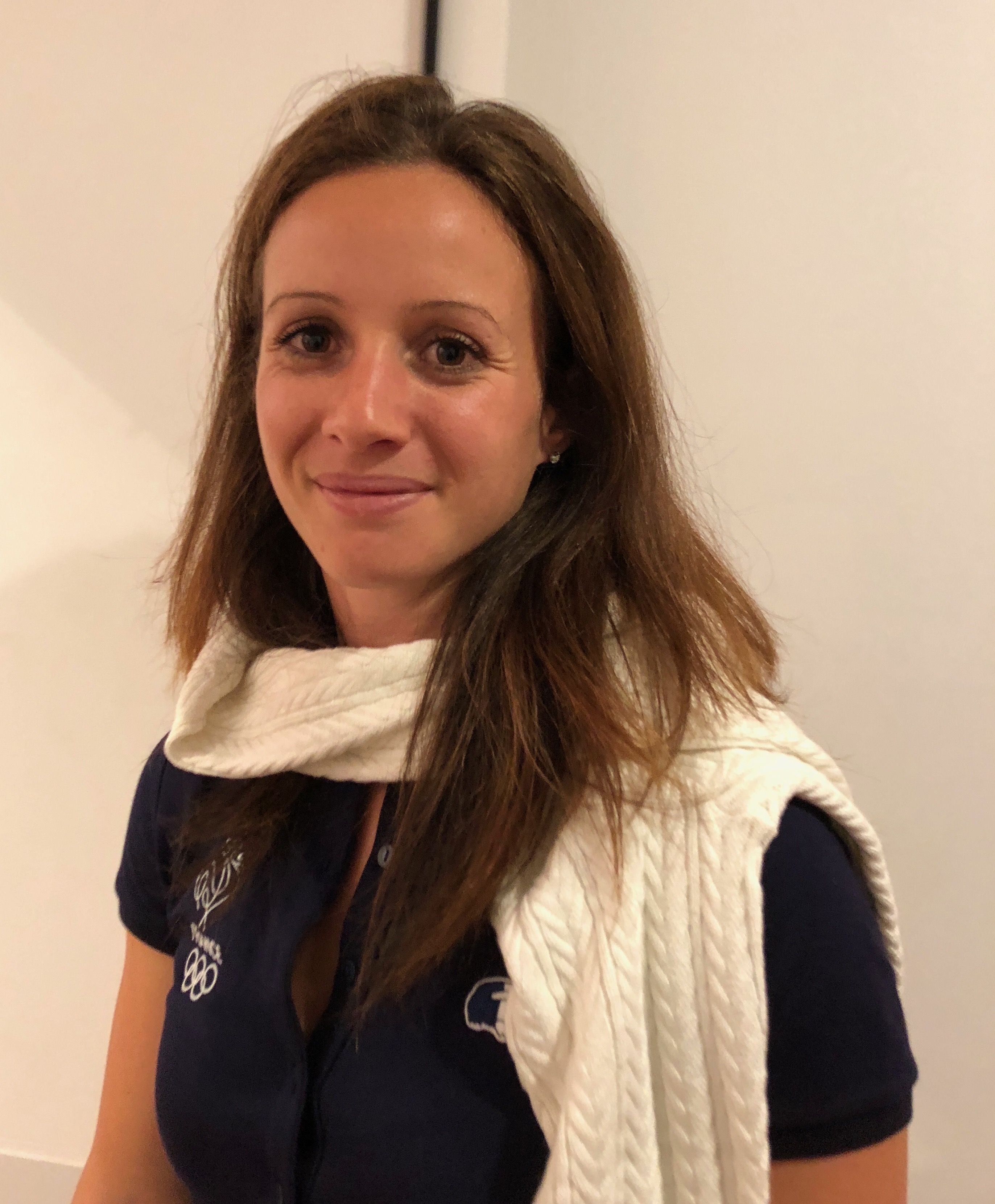 French Biathlete Anaïs Chevalier in Paris, october 4th 2017